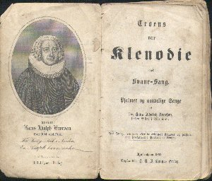 First page